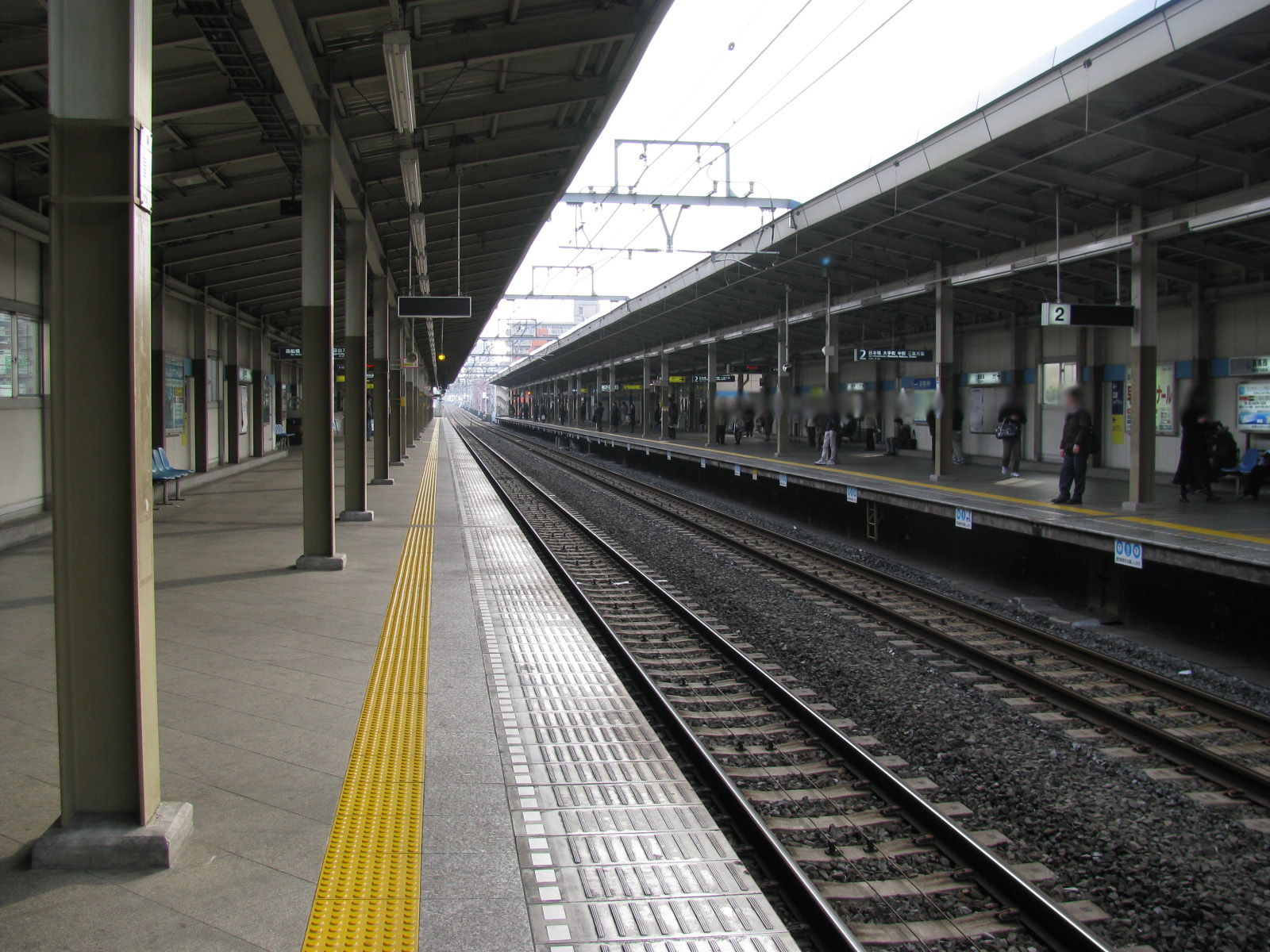 Platform of Nishi-Kasai Station on Tokyo Metro Tozai line